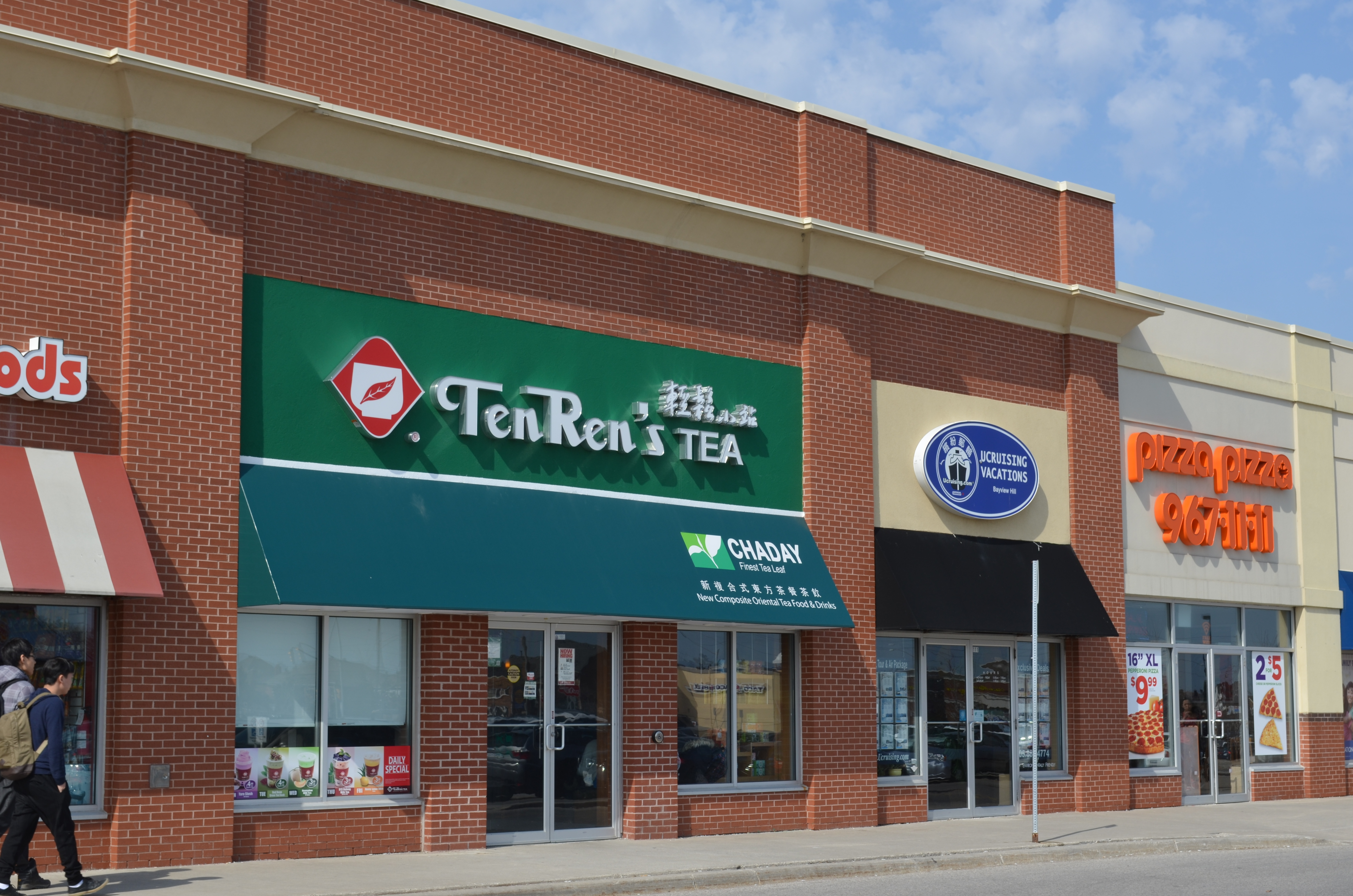 Ten Ren's Tea 1070 Major Mackenzie Drive East, Bayview & Major Mackenzie, Richmond Hill, Ontario